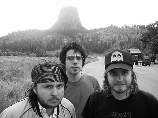 Early 2000's.